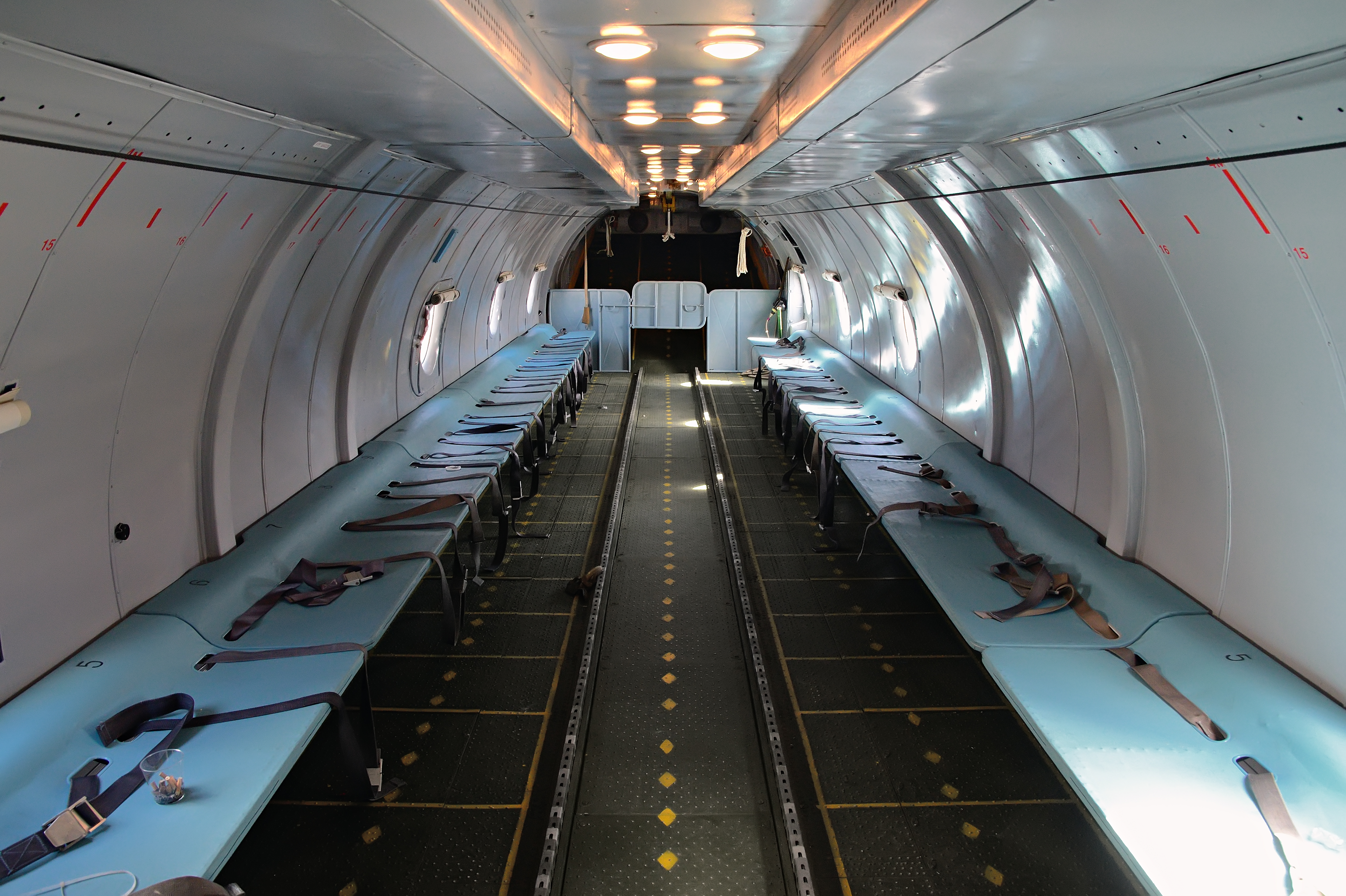 An-26 cargo bay RA 26604 02.05.2012 Dmitry Belov 1898